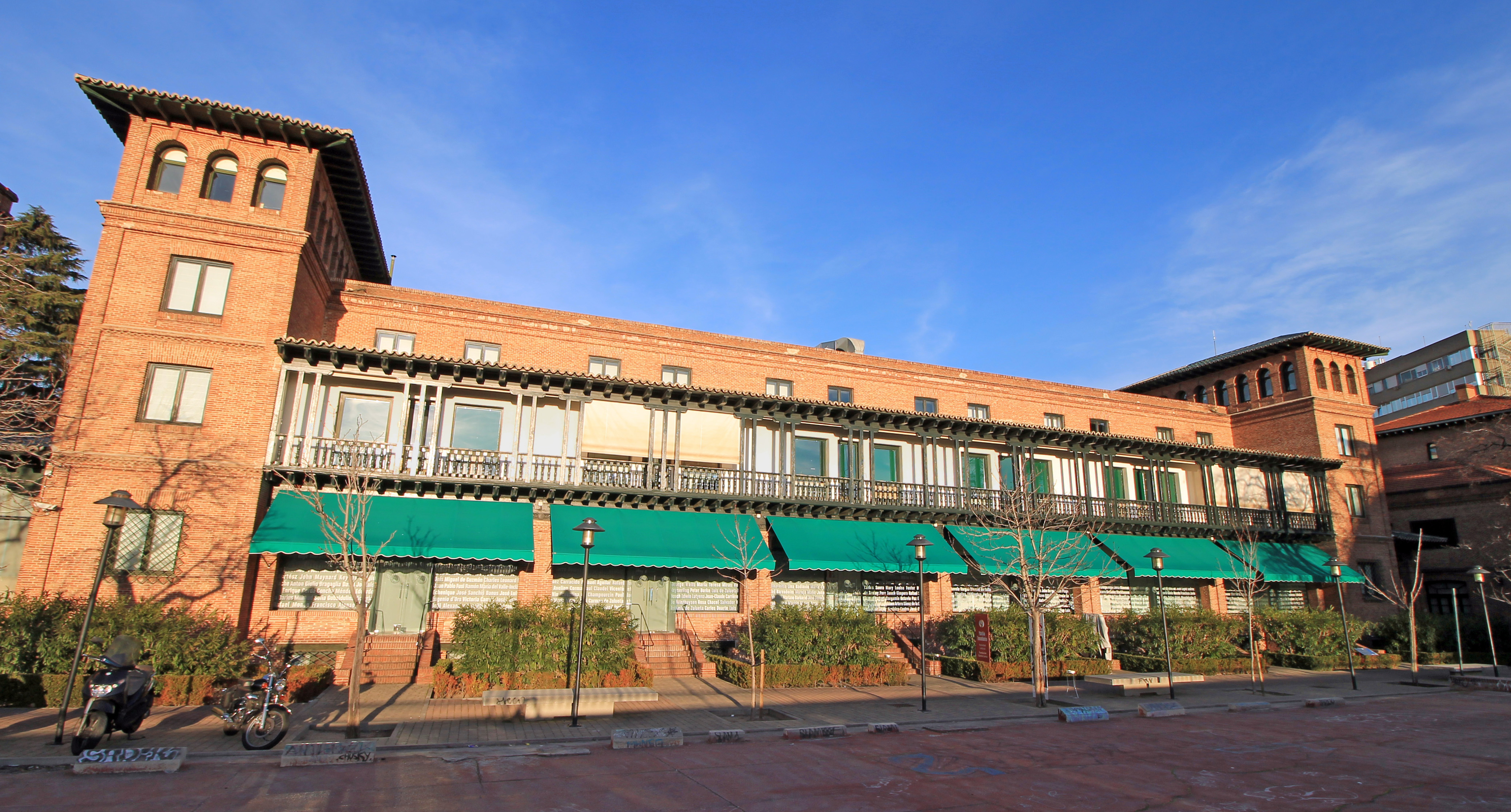 The Pabellón Transatlántico (literally "Transatlantic Building") of Residencia de Estudiantes in Madrid (Spain).